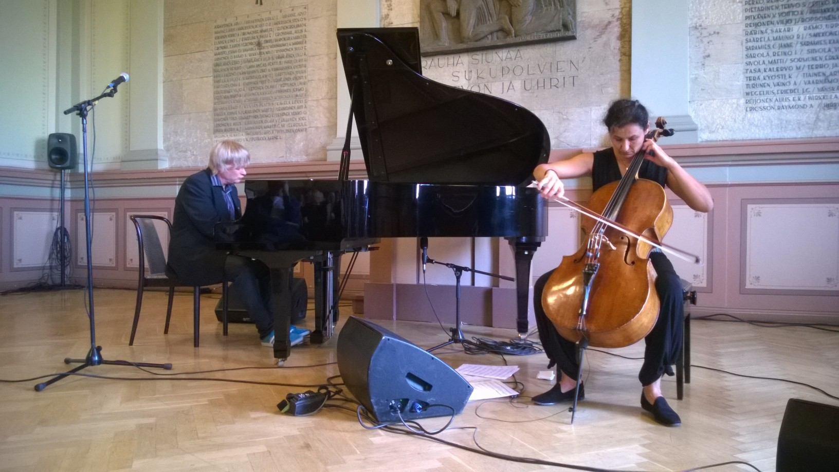 Iiro Rantala String Trio